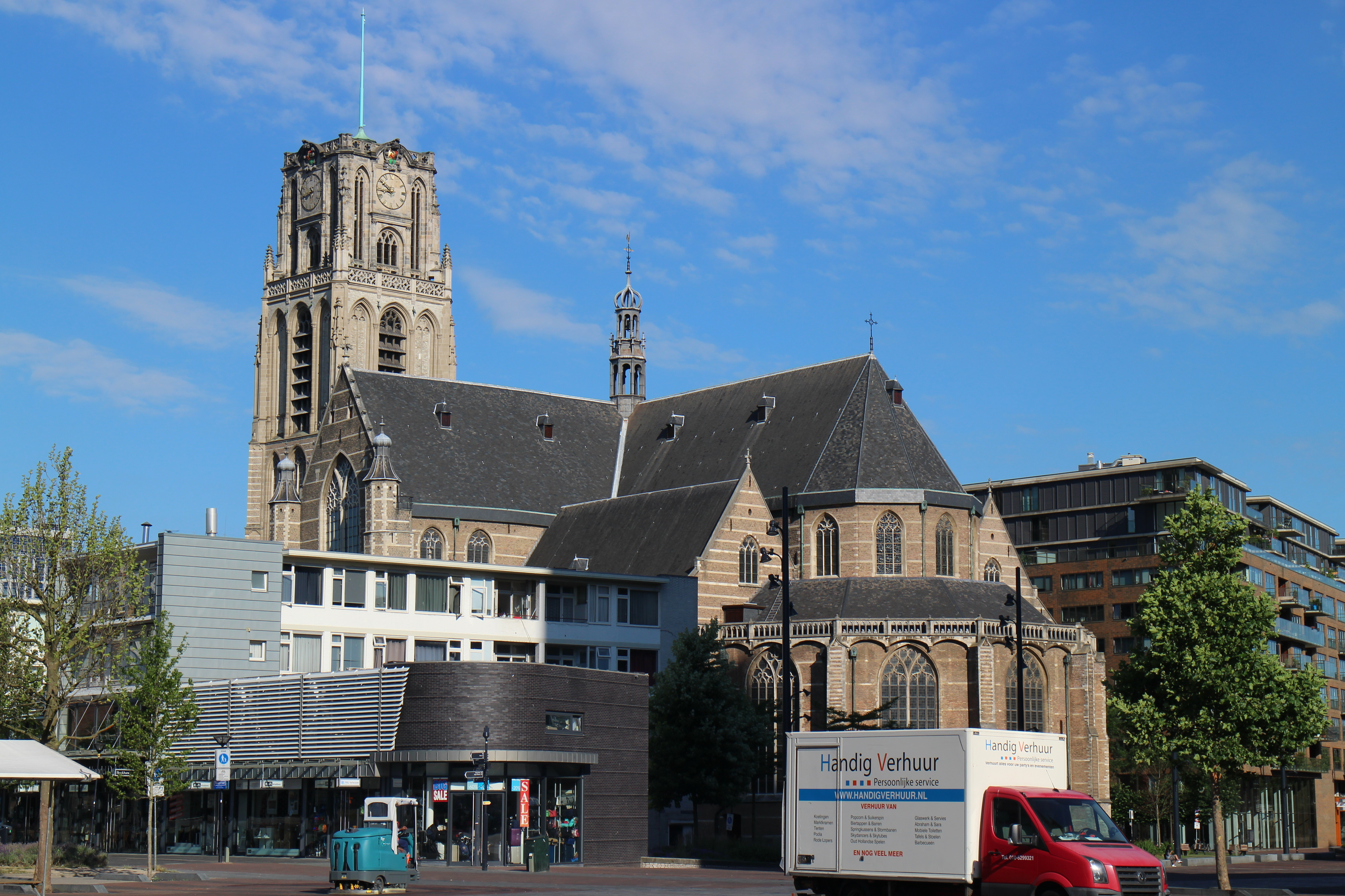 Grote of Sint-Laurenskerk (Rotterdam)